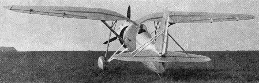 Loire 46 photo from L'Aerophile January 1935